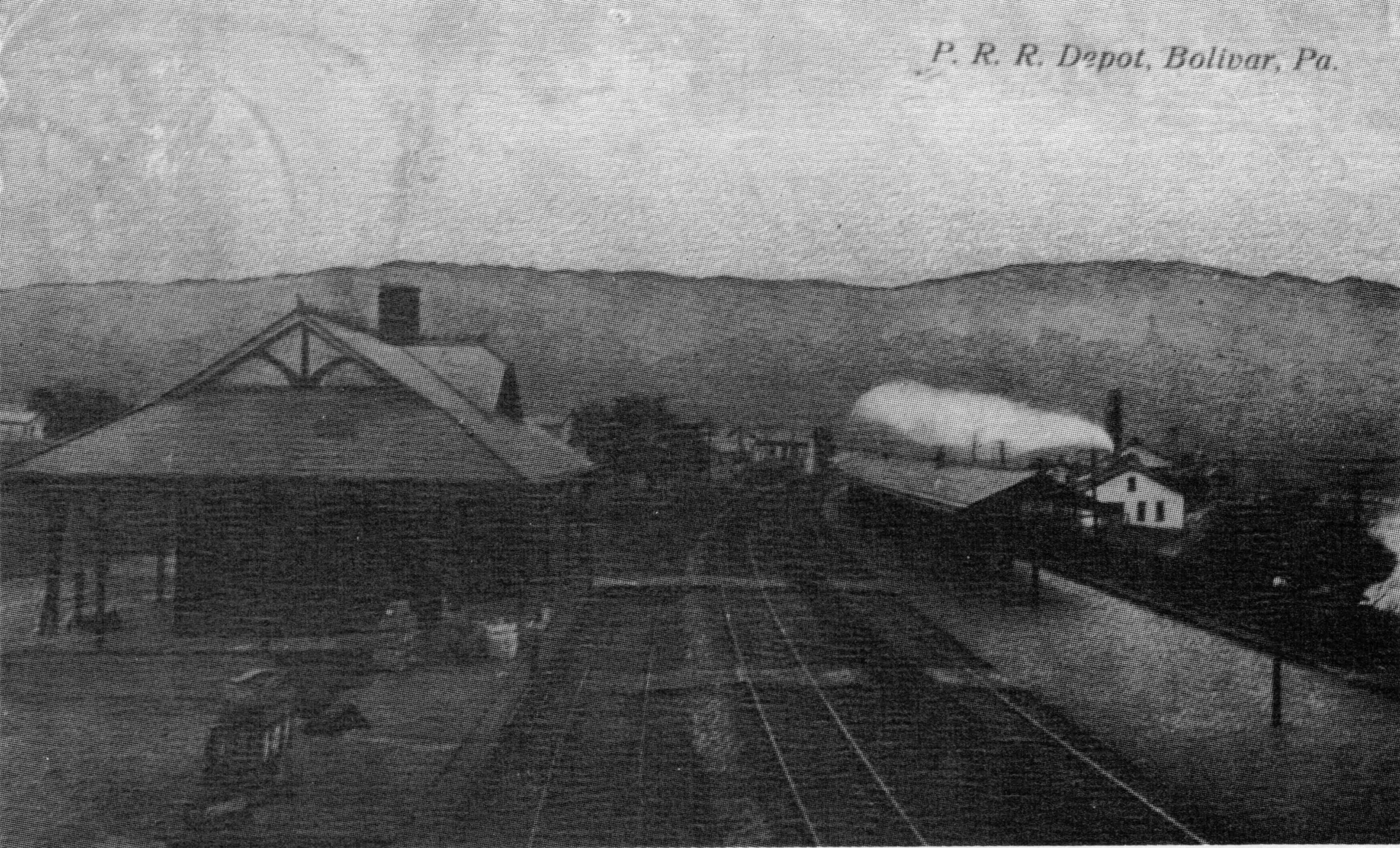 Pennsylvania Rail Road Freight and Passenger Station Depot in Bolivar, Pennsylvania.